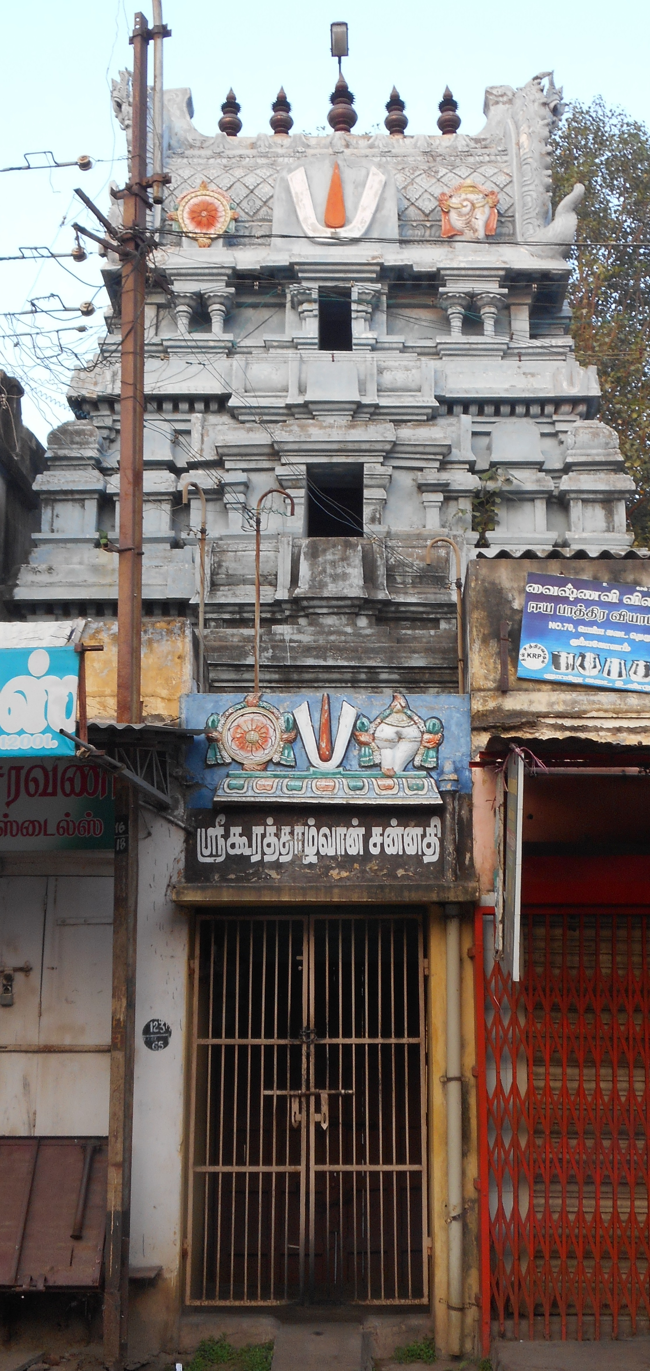 Kumbakonam Kurattalvar temple கும்பகோணம் கூரத்தாழ்வார் கோயில்